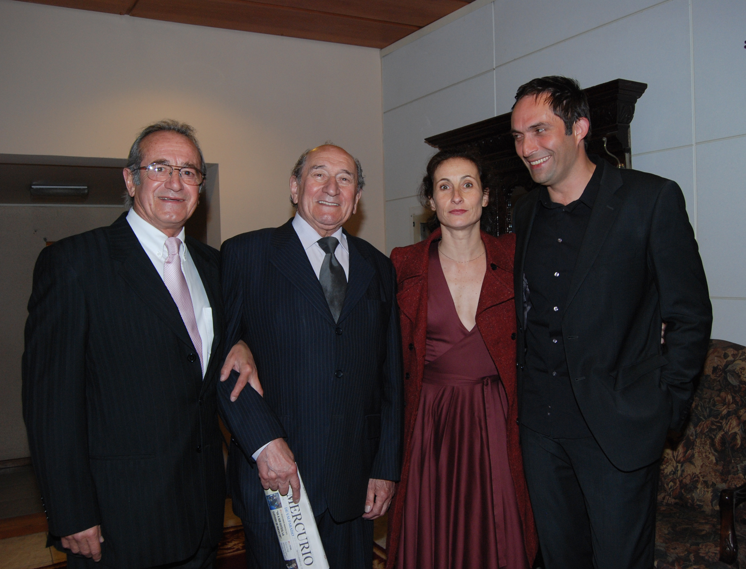 Sergio Hernández, Luis Alarcón, Amparo Noguera, and Marcelo Alonso at Gala Senado de la República